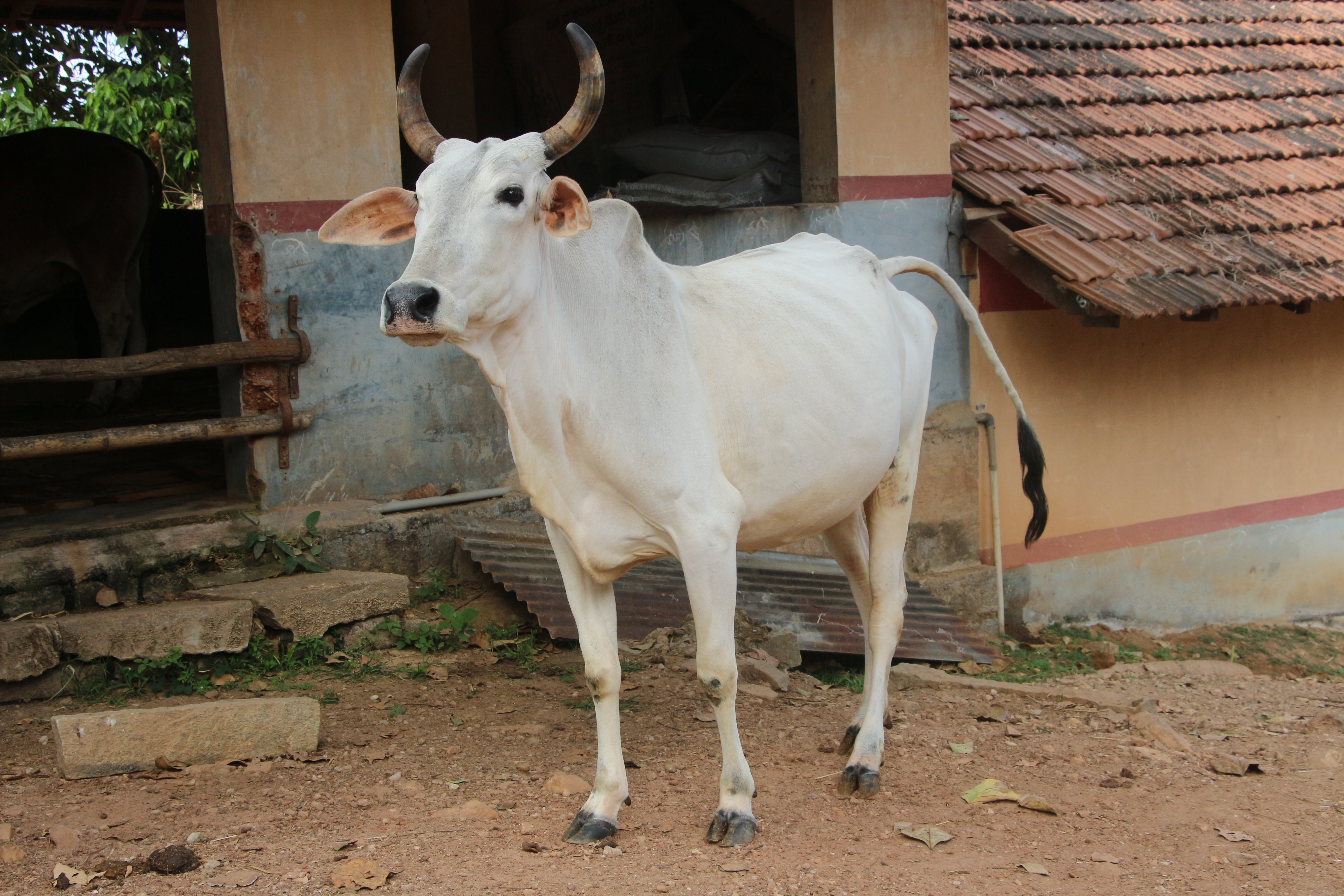 Indian cow breed Nagoriಕನ್ನಡ: ಭಾರತೀಯ ಗೋತಳಿ ನಾಗೋರಿ